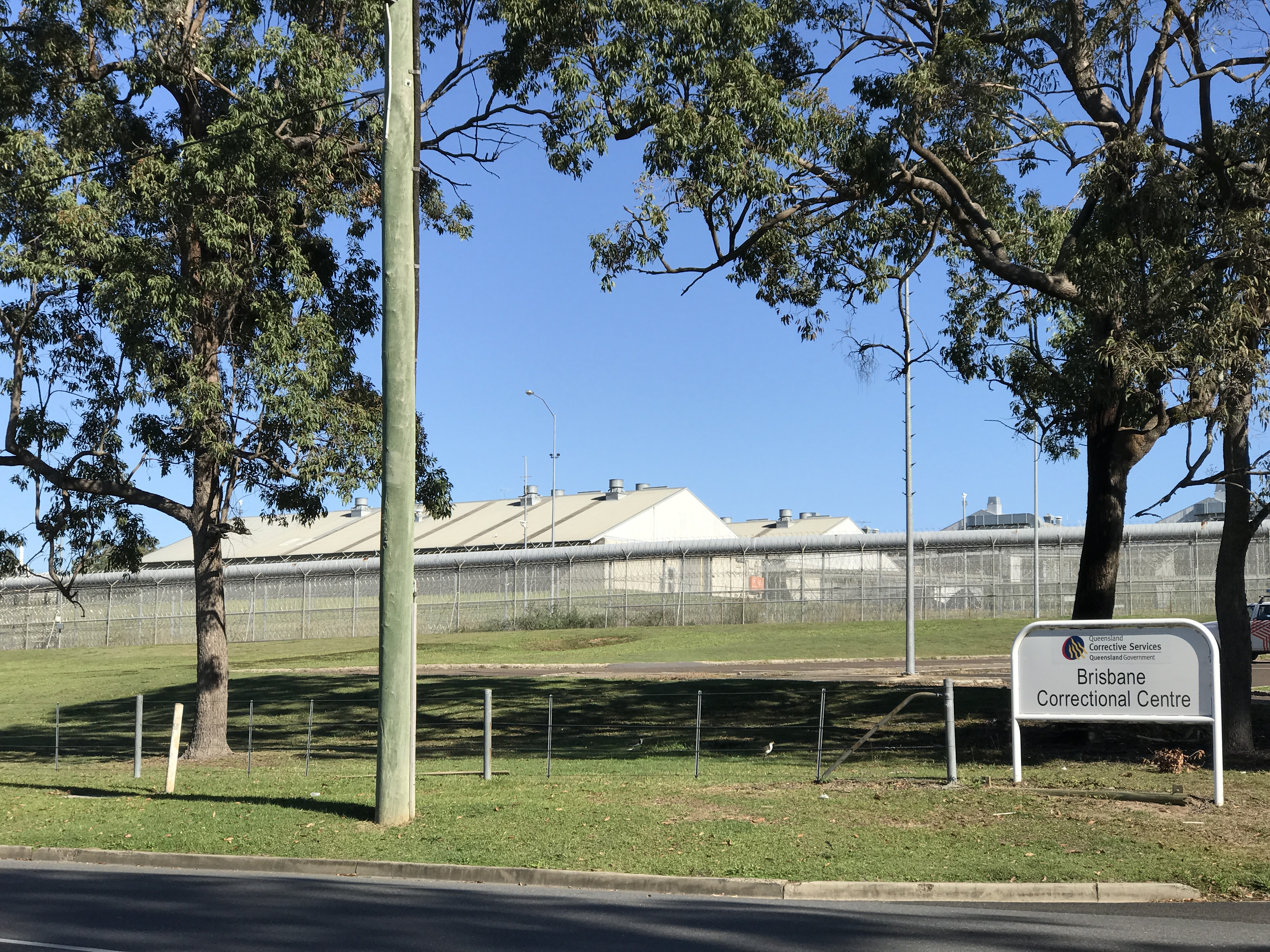 Brisbane Correctional Centre, Wacol, Queensland